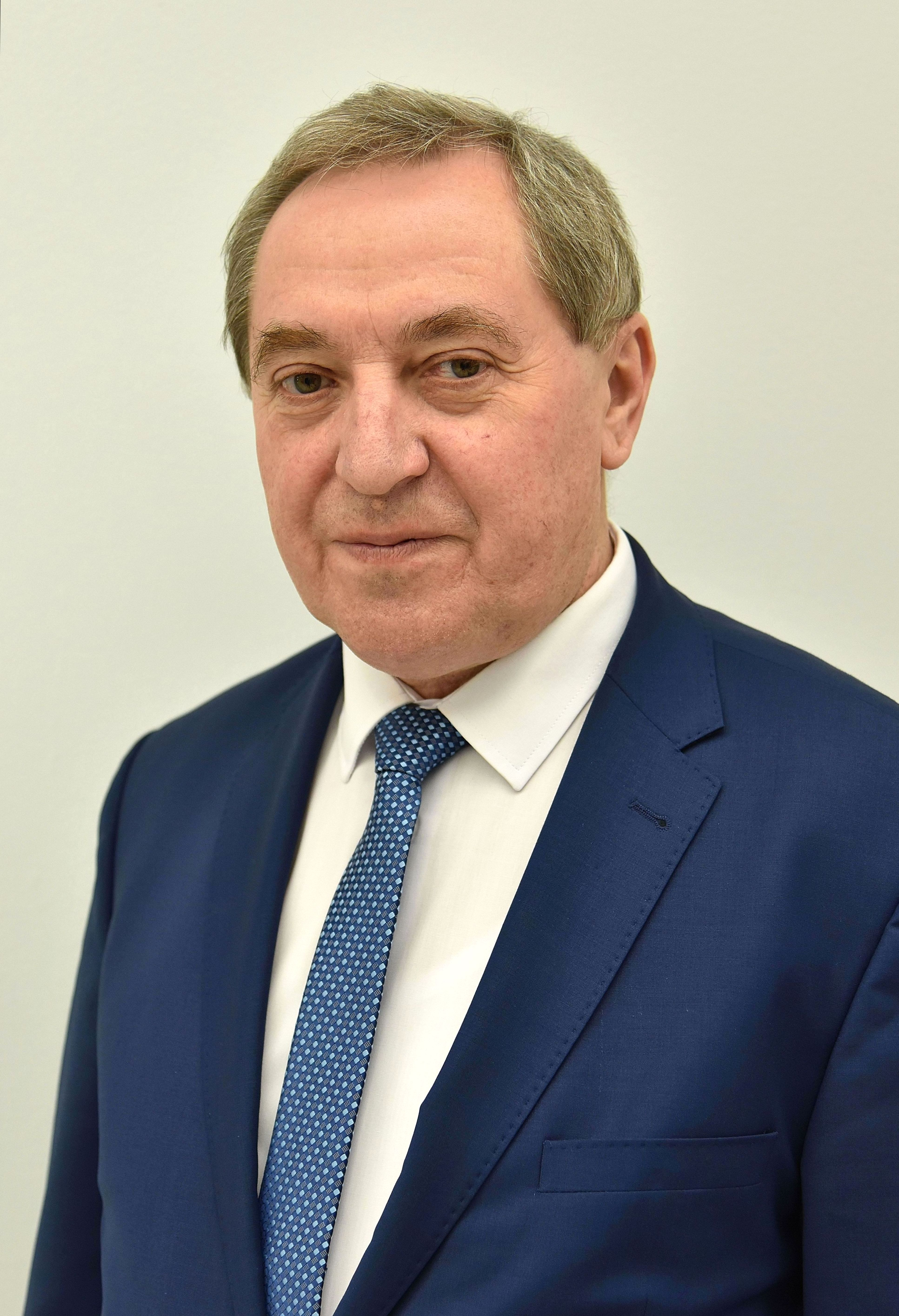 Polish MP Henryk Kowalczyk in the Sejm